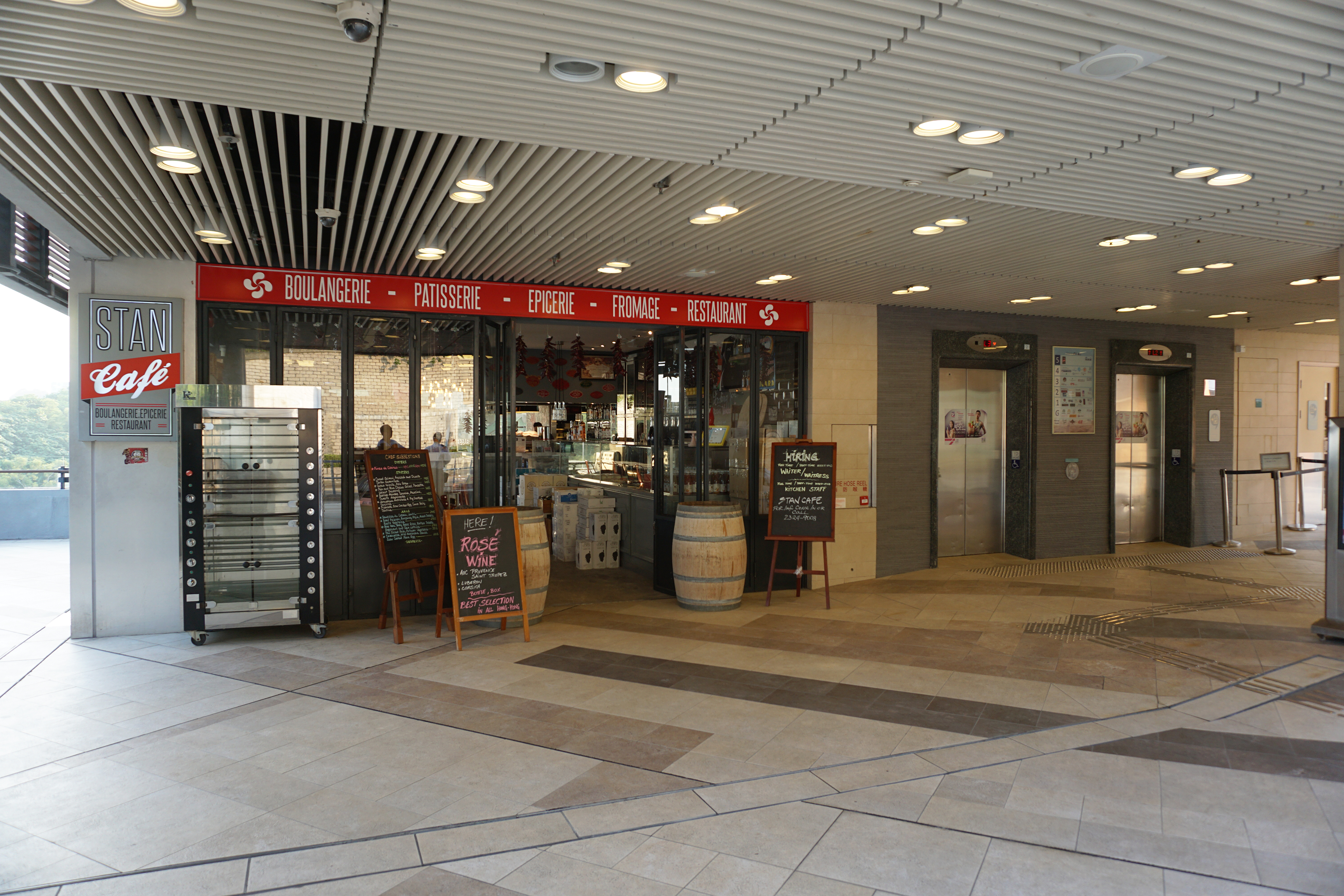 Stanley Plaza in Stanley, Hong Kong.